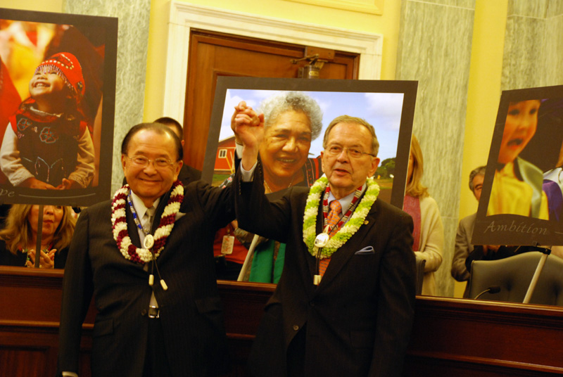 Senators Daniel Inouye and Ted Stevens at the Alaska Federation of Natives (AFN) Reception in Honor of Senators Stevens and Inouye